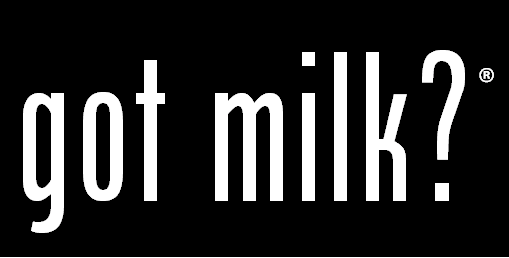 Got Milk Current logo